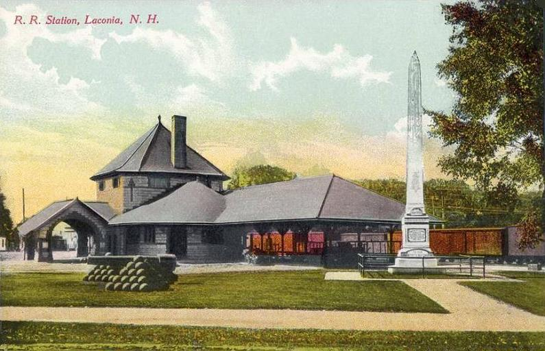 Laconia Passenger Station, Laconia, New Hampshire. Designed by Bradford Gilbert, it was built for the Boston & Maine Railroad in 1892.